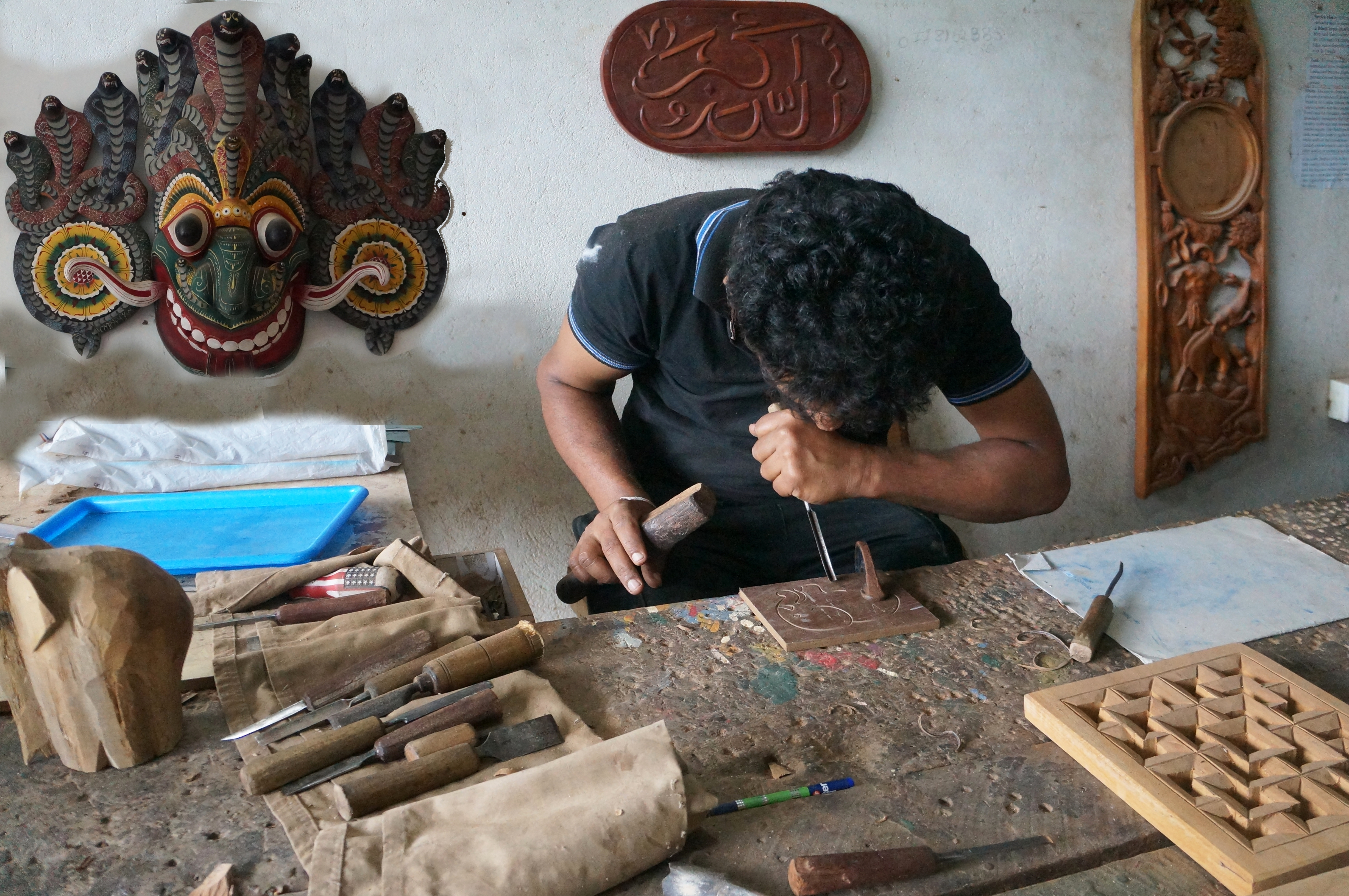 Nishantha Wood Carving Factory, Polonnaruwa, 702 Peradeniya Rd, Kandy 20000.- Sri Lanka.